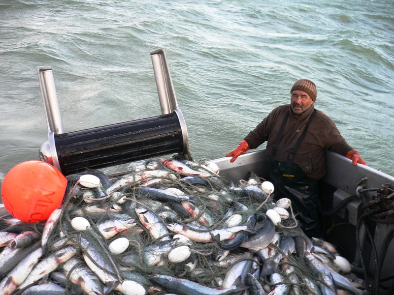 Sternfull@Bristol Bay. Sockeye. F/V Mecca. Captain: Turk. Deckhand: Marco Casagrande. 2006.